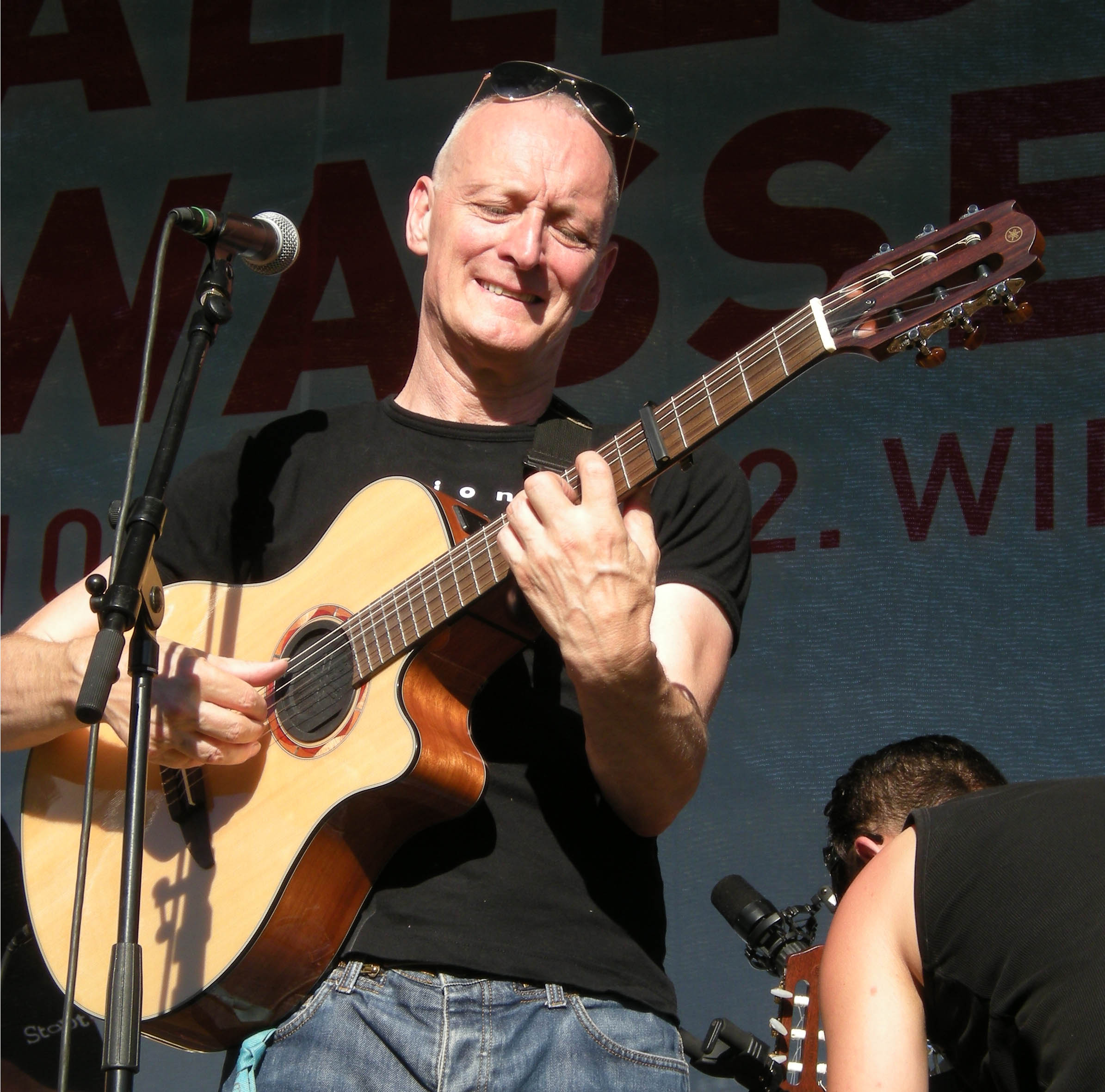 see file name, and